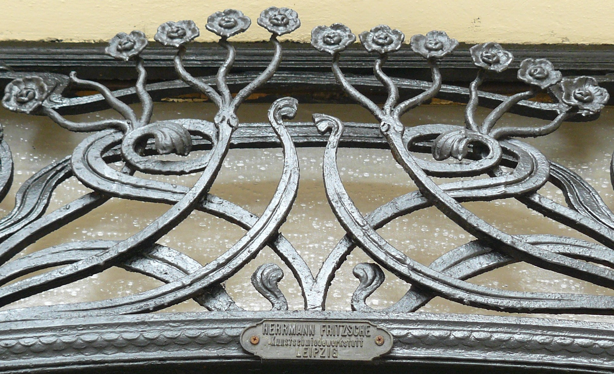 Ul. Św. Marcin 69 in Poznan, detail.